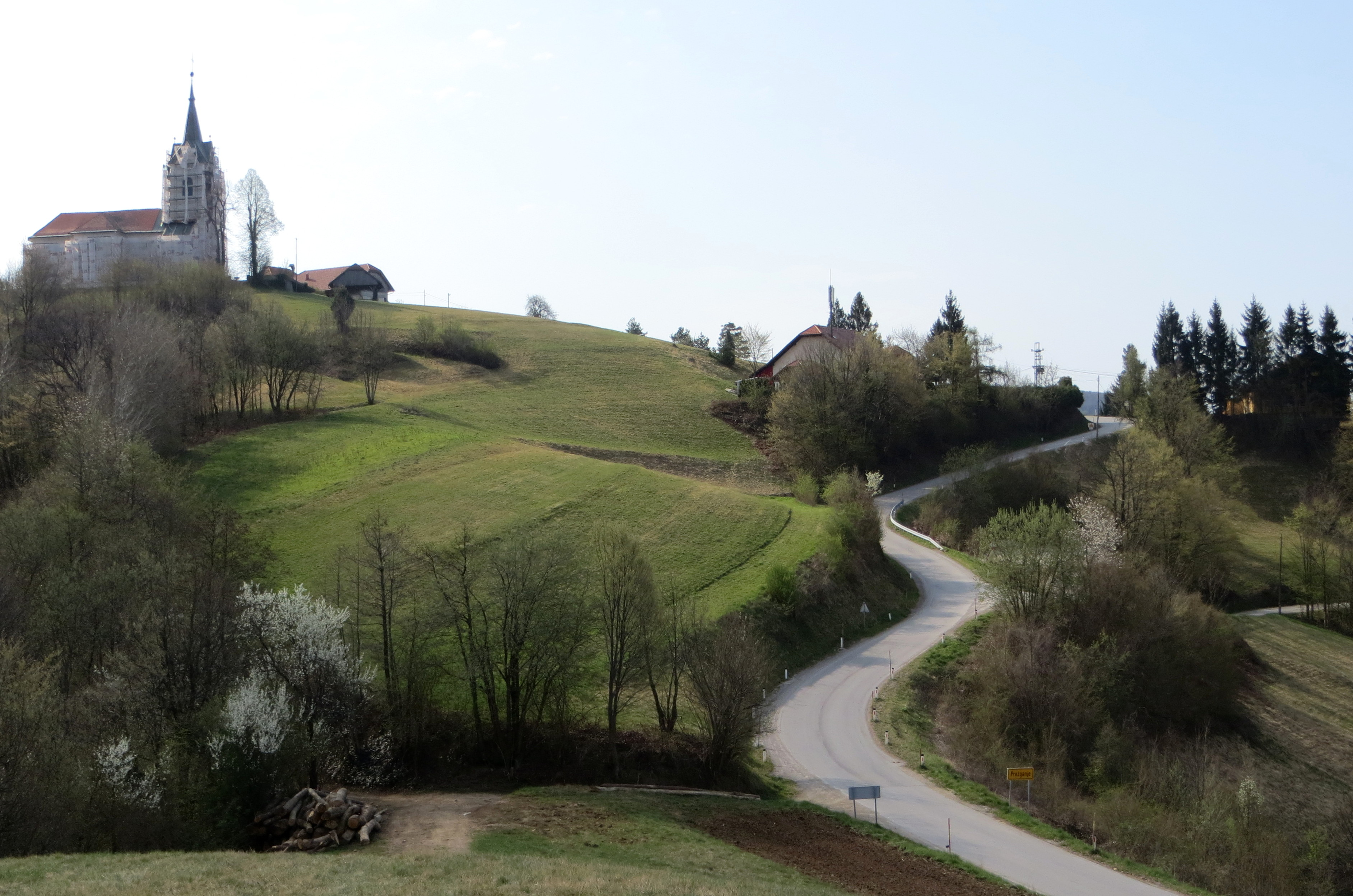 Prežganje, Municipality of Ljubljana, Slovenia